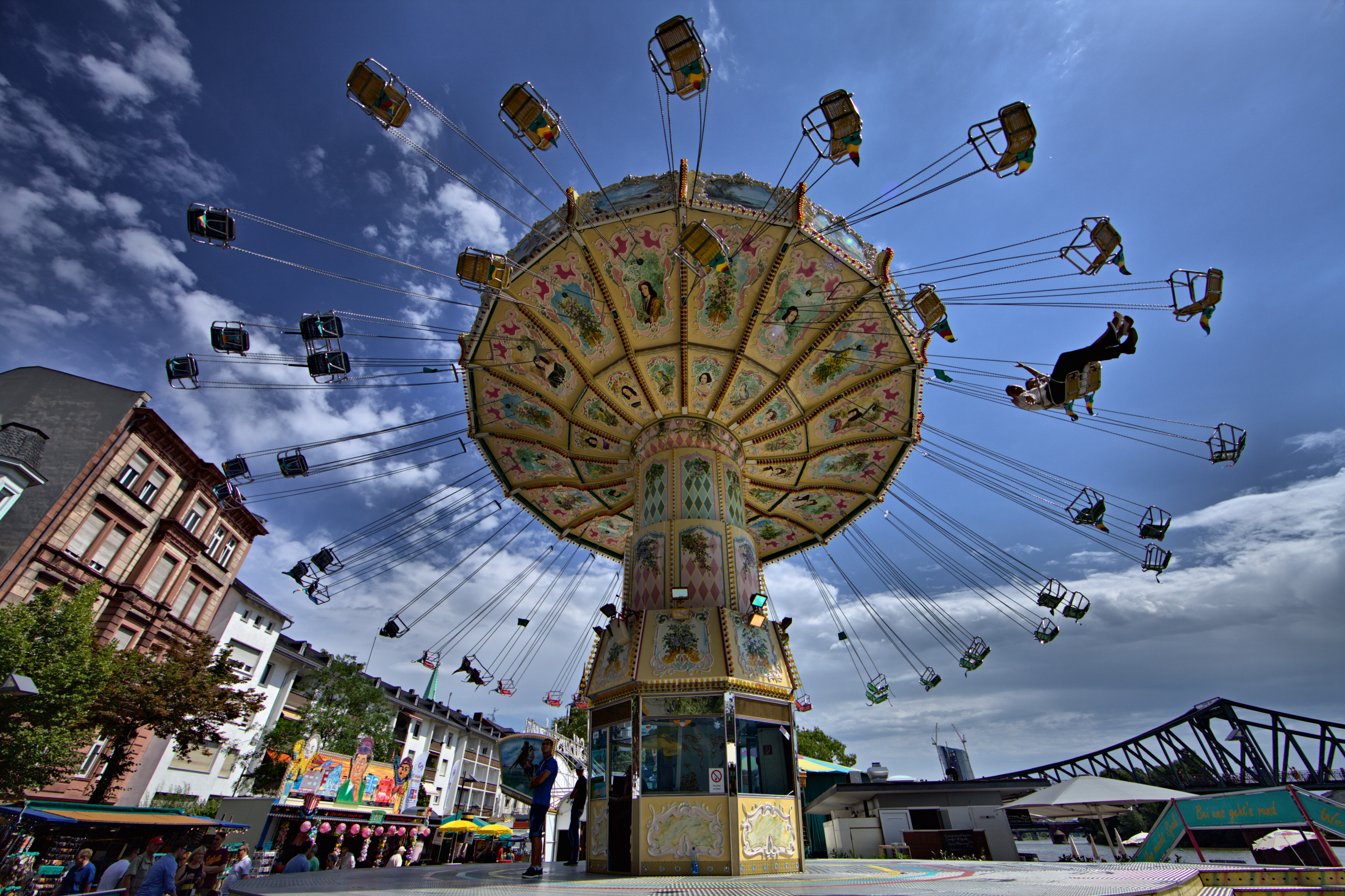 You spin me round ..., roundabout in Frankfurt near river Main. River bank Mainkai with old houses, EZB-tower under construction in June / begin of August 2013.